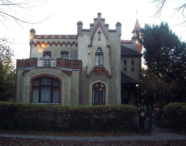 Villa by Gustav Lilienthal.